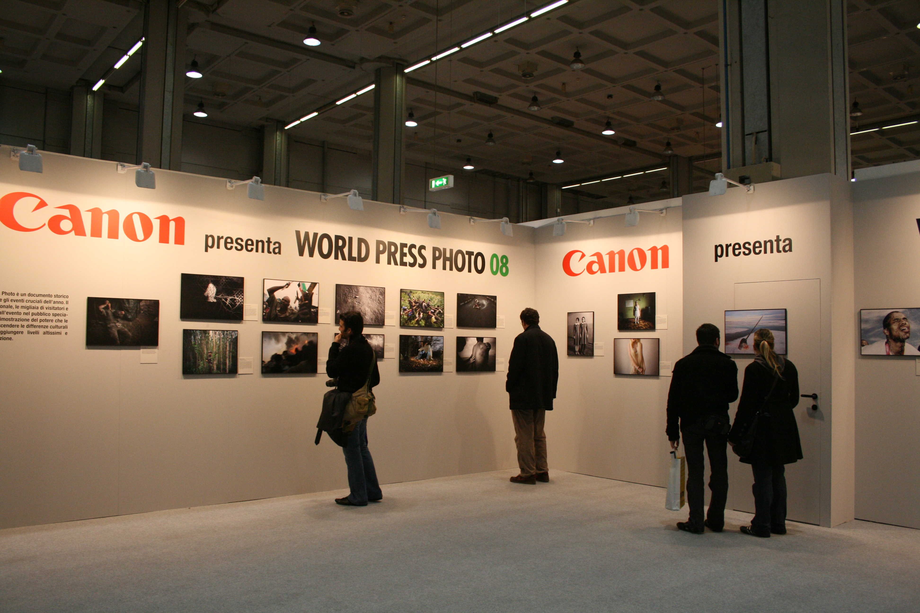 Photoshow 2009 - Milano